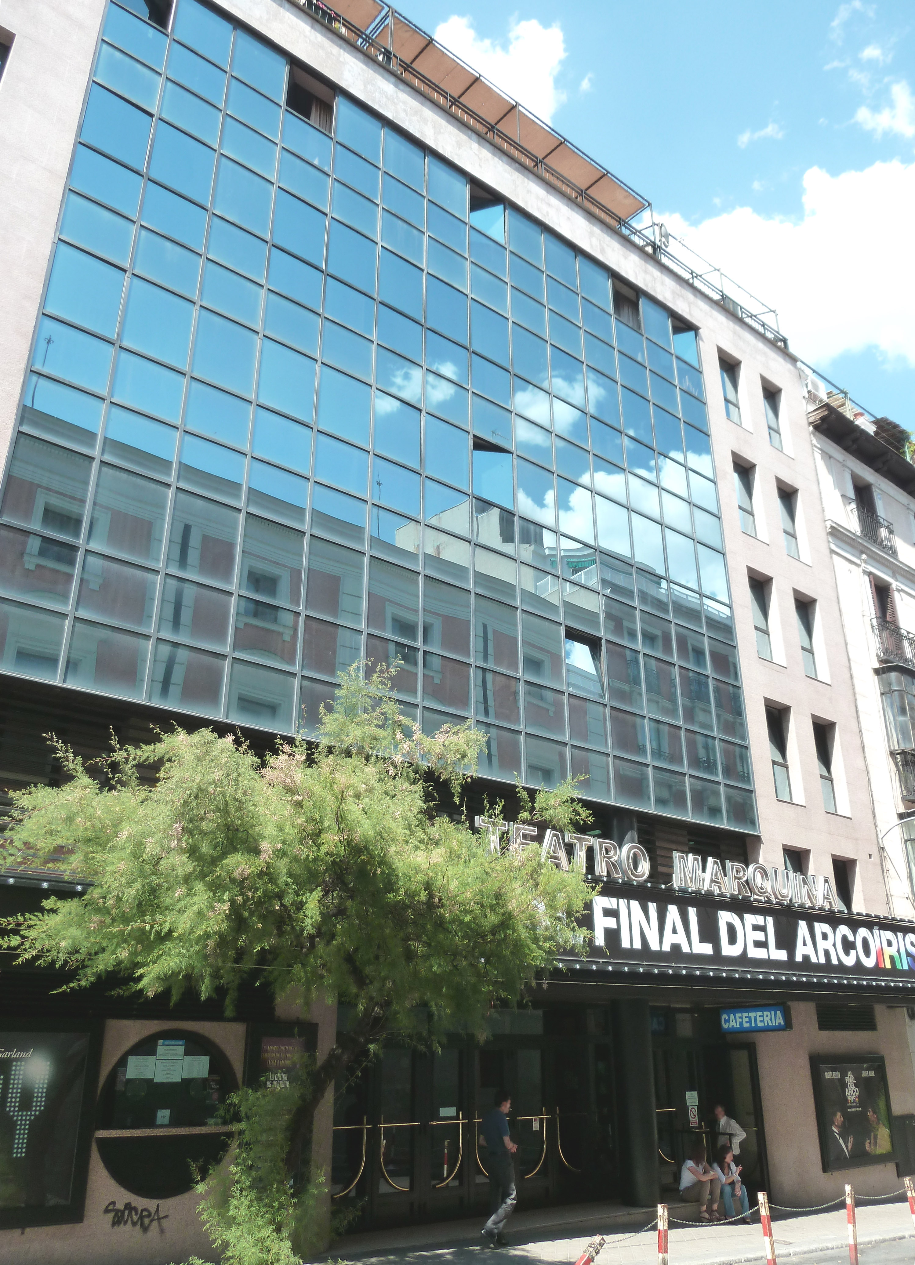 Façade of Teatro Marquina (a theater), at 11 Calle de Prim (street) in Centro district in Madrid (Spain).